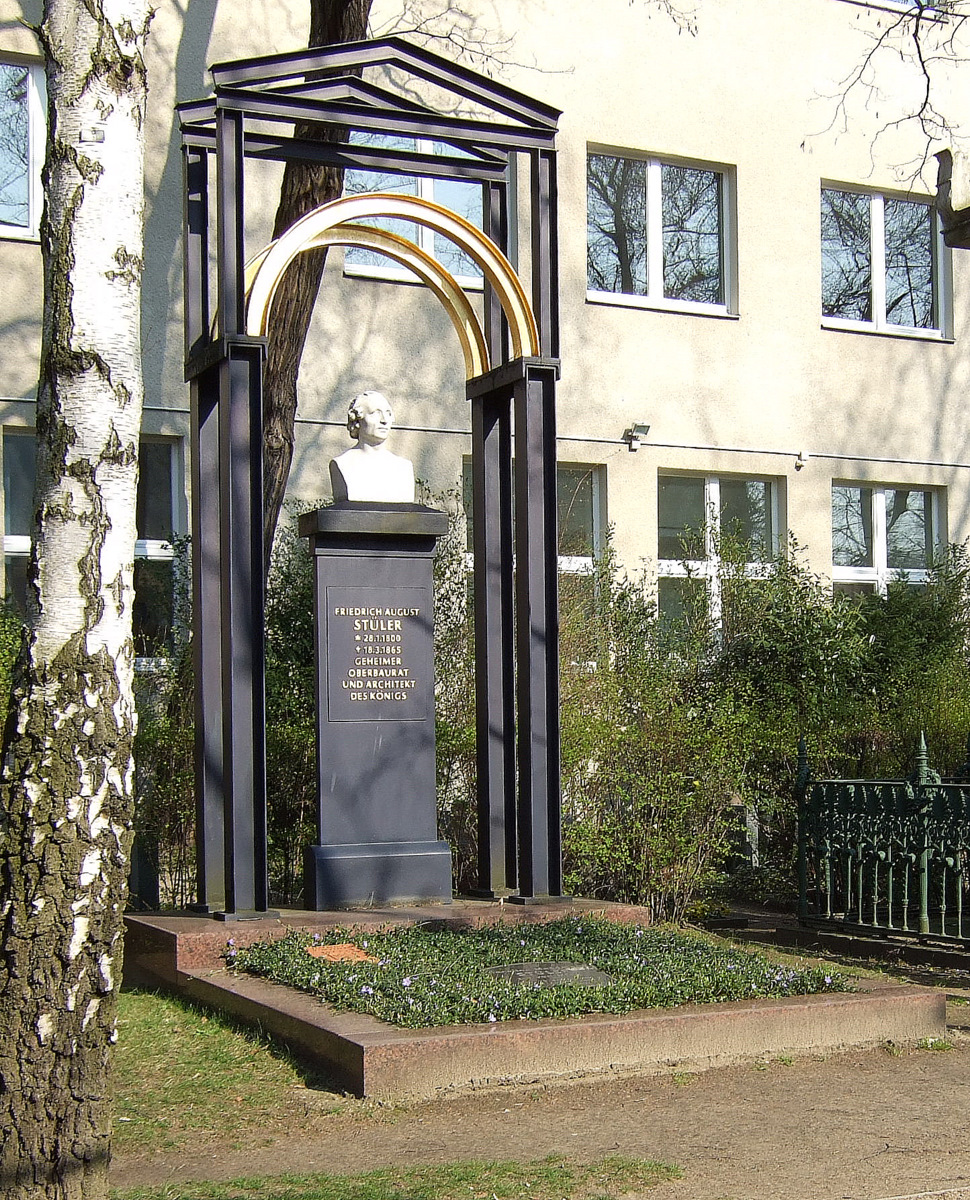 Tomb of Stüler